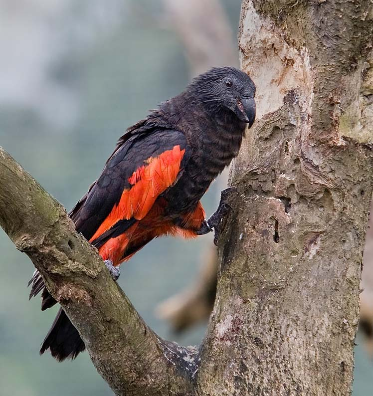 Pesquet's Parrot, also known as the Vulturine Parrot